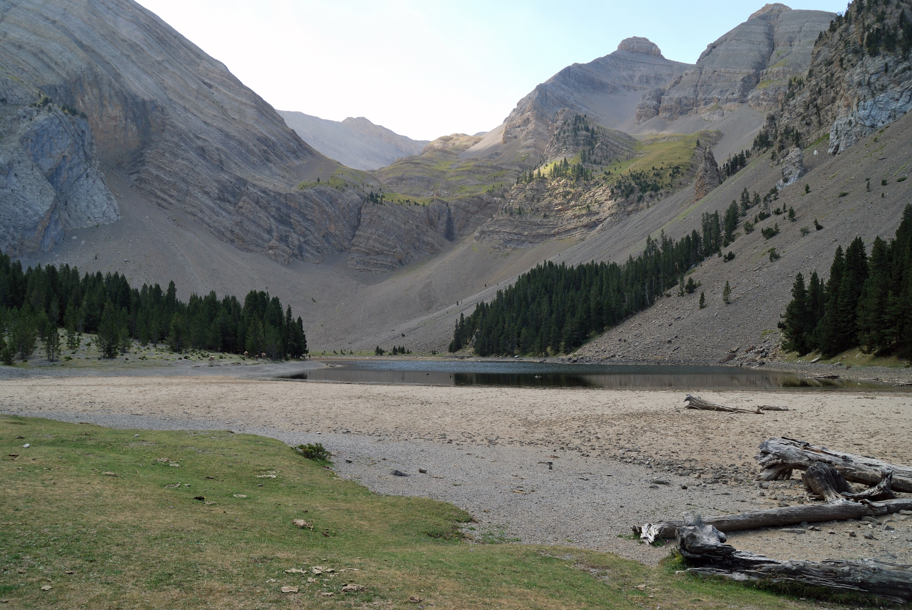 Photo of Ibón Plan in Huesca, Spain